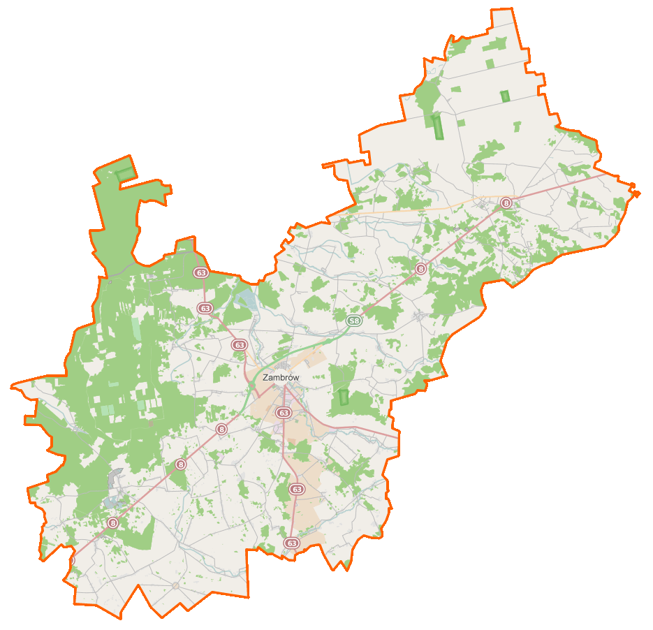 Map of Powiat zambrowski, Poland This map of Powiat zambrowski was created from OpenStreetMap project data, collected by the community. This map may be incomplete, and may contain errors. Don't rely solely on it for navigation.